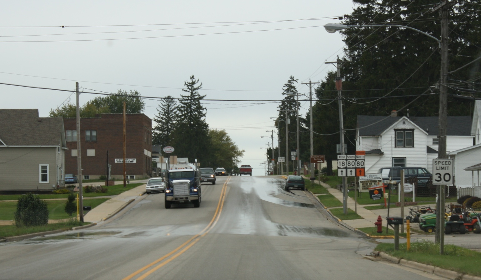 Looking west at downtown Cobb, Wisconsin on U.S. Route 18 at its intersection with Wisconsin Highway 80.